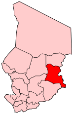 Map of Chad showing Ouaddaï region.